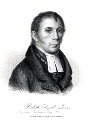 Portrait of Gottlieb Eduard Lenz